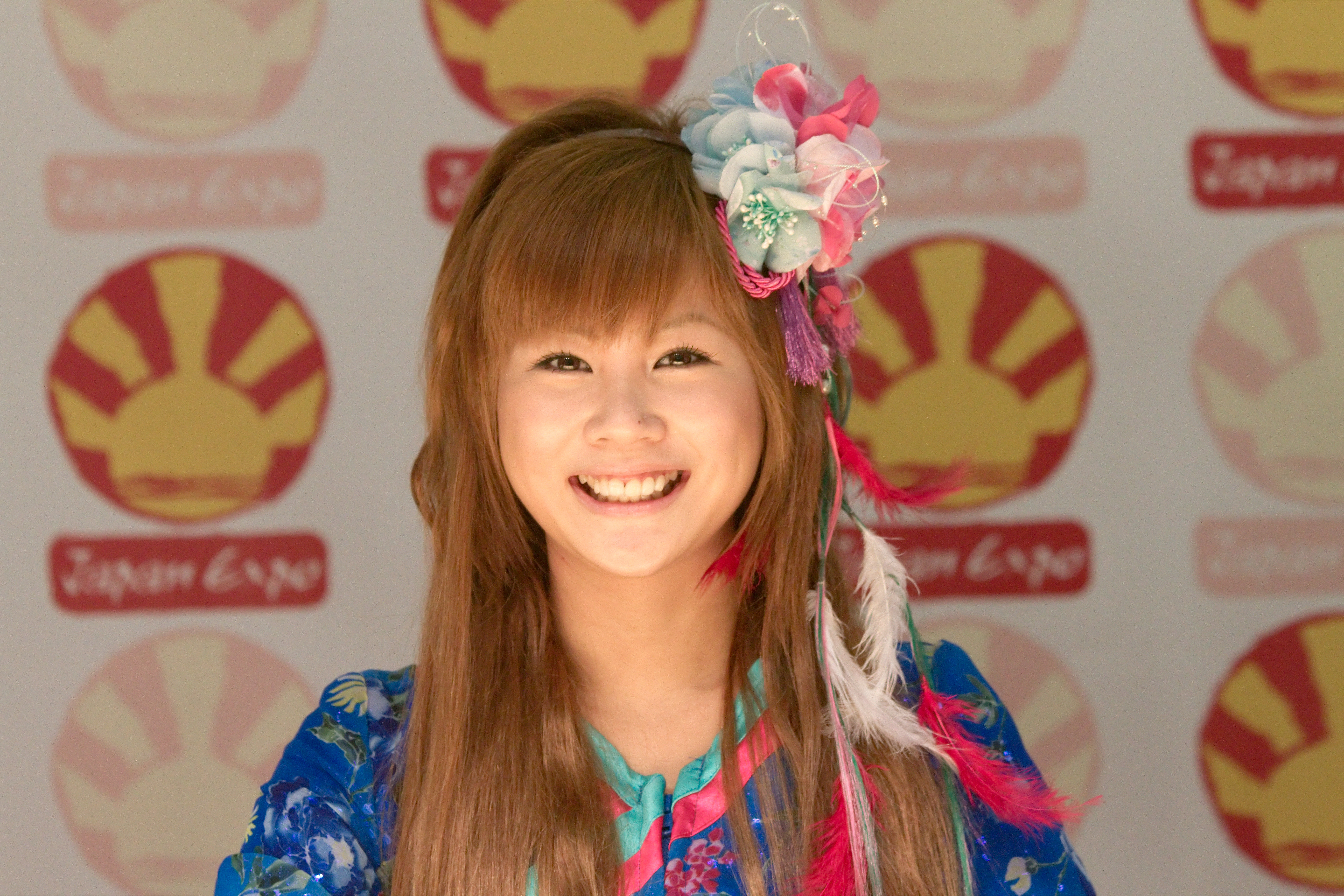 Risa Niigaki of Morning Musume during autograph session at Japan Expo, Sunday, July 03, 2010 (Paris, France).